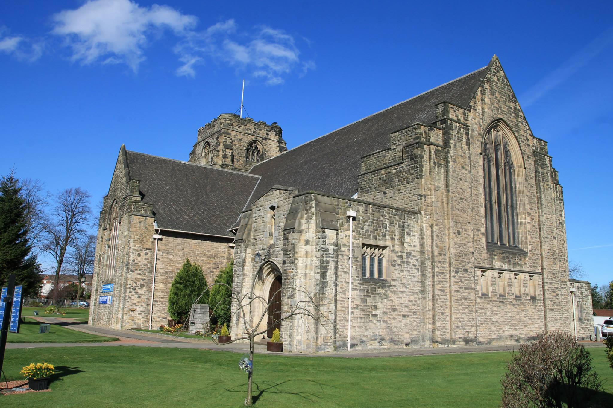 Polish Roman Catholic church of the Black Madonna (formerl yCathcart Old Parish Church), Carmunnock Road, Glasgow, seen from the southeast